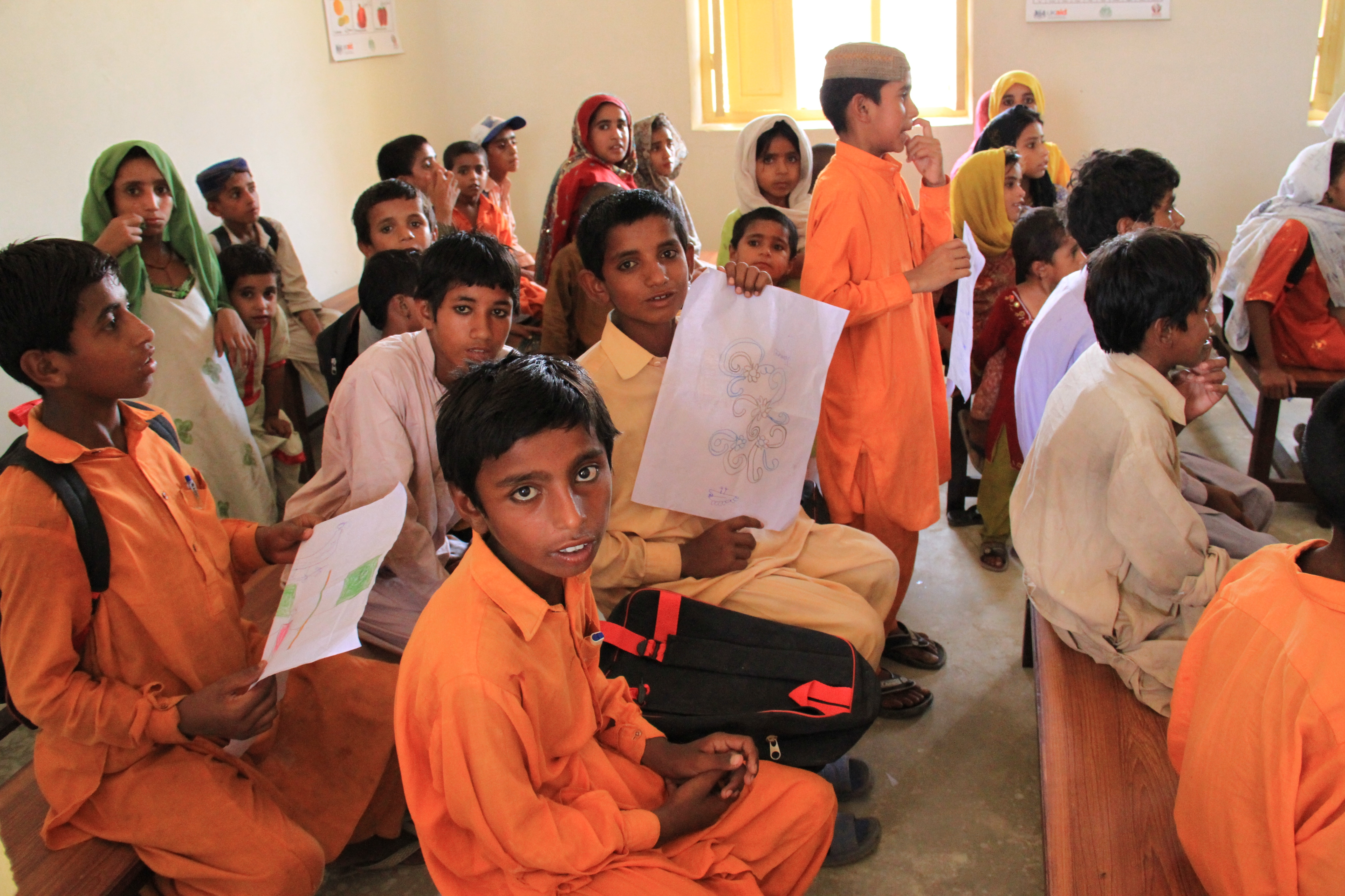 Mohsin Junejo (front centre) is back in school in Nawan Juneja village, in Pakistan's Sindh province, but his family still live in a tent following last summer’s flood. Their village was completely underwater for months following the devastating floods in Pakistan last year. UK aid has helped restore the local primary school to a better standard than it was before the floods. The school now has clean drinking water and the only toilet in the village. Mohsin’s dad said “Our house vanished in the flood. Some loose bricks are all we had left. We went to Sukkur for 15 days, then came back to Shikapur for 25 days, then to a camp in Wazirabad, then came back to the village, but it was still flooded so we camped on the road outside the village. "In March the flood water receded and we moved back in to the village, but our brick house was destroyed and we’re now in a tent. We don’t have money to rebuild it, but we’re happy to be back in the village so our son can go to school. He wasn’t in school for five to six months because of the floods.” To find out more about how the UK is helping in Pakistan, please visit: Image credit: Vicki Francis/Department for International Development Terms of use This image is posted under a Creative Commons - Attribution Licence , in accordance with the Open Government Licence . You are free to embed, download or otherwise re-use it, as long as you credit the source as 'Vicki Francis/Department for International Development'.